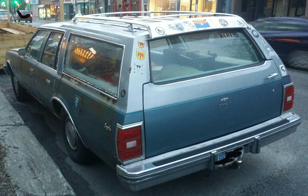 Chevrolet Impala photographed in Montréal, Québec, Canada .